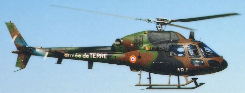 Aérospatiale Fénnec AS 555UN liaison helicopter (registration: F-MABJ #5593) of the French Army's Light Aviation (ALAT), Army's Helicopters Squadron (EHADT).